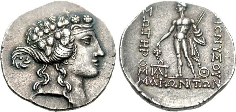 Thrace, Maroneia. Circa 189/8-49/5 BC. AR Tetradrachm (16.57 g, 1h). Wreathed head of young Dionysos right Dionysos standing half-left, holding grapes and narthex stalks; monogram to left, Θ to right. From Collection C.P.A. Ex Lanz 102 (28 May 2001), lot 106.